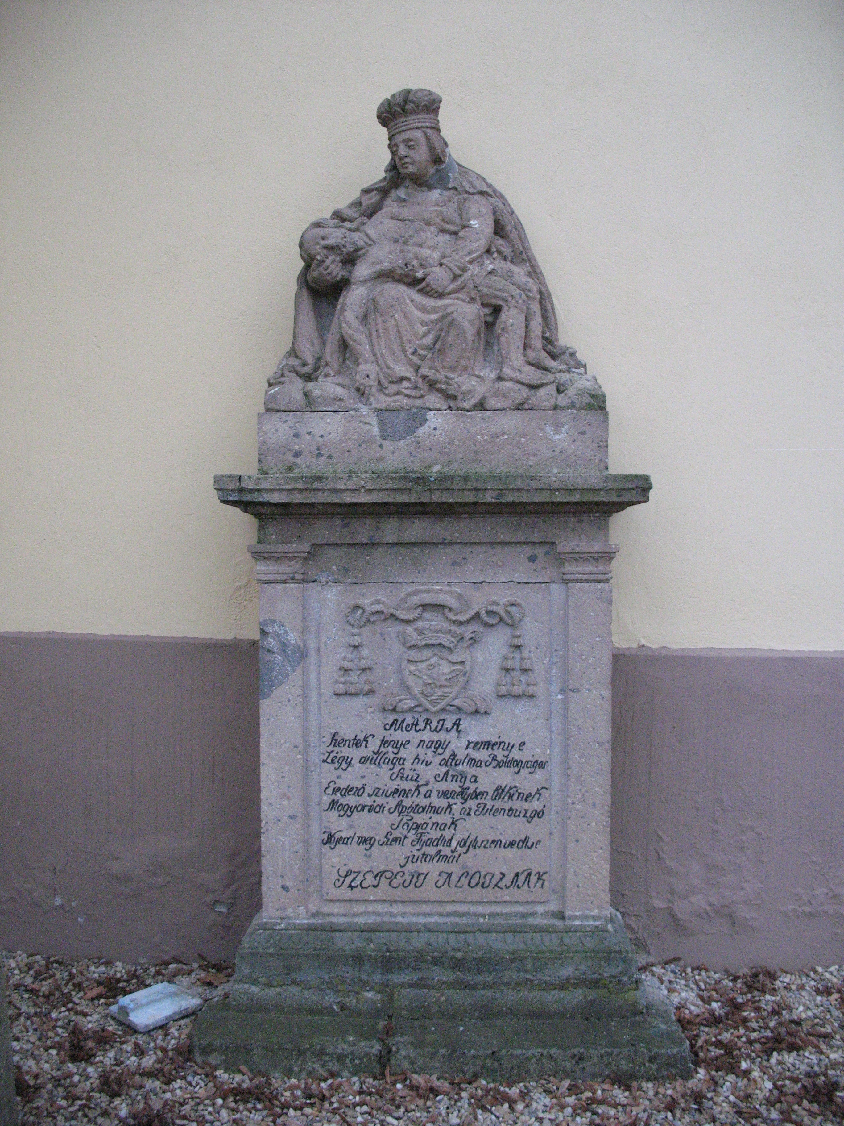 Sculpture at the catholic church in Tarcal, Hungary